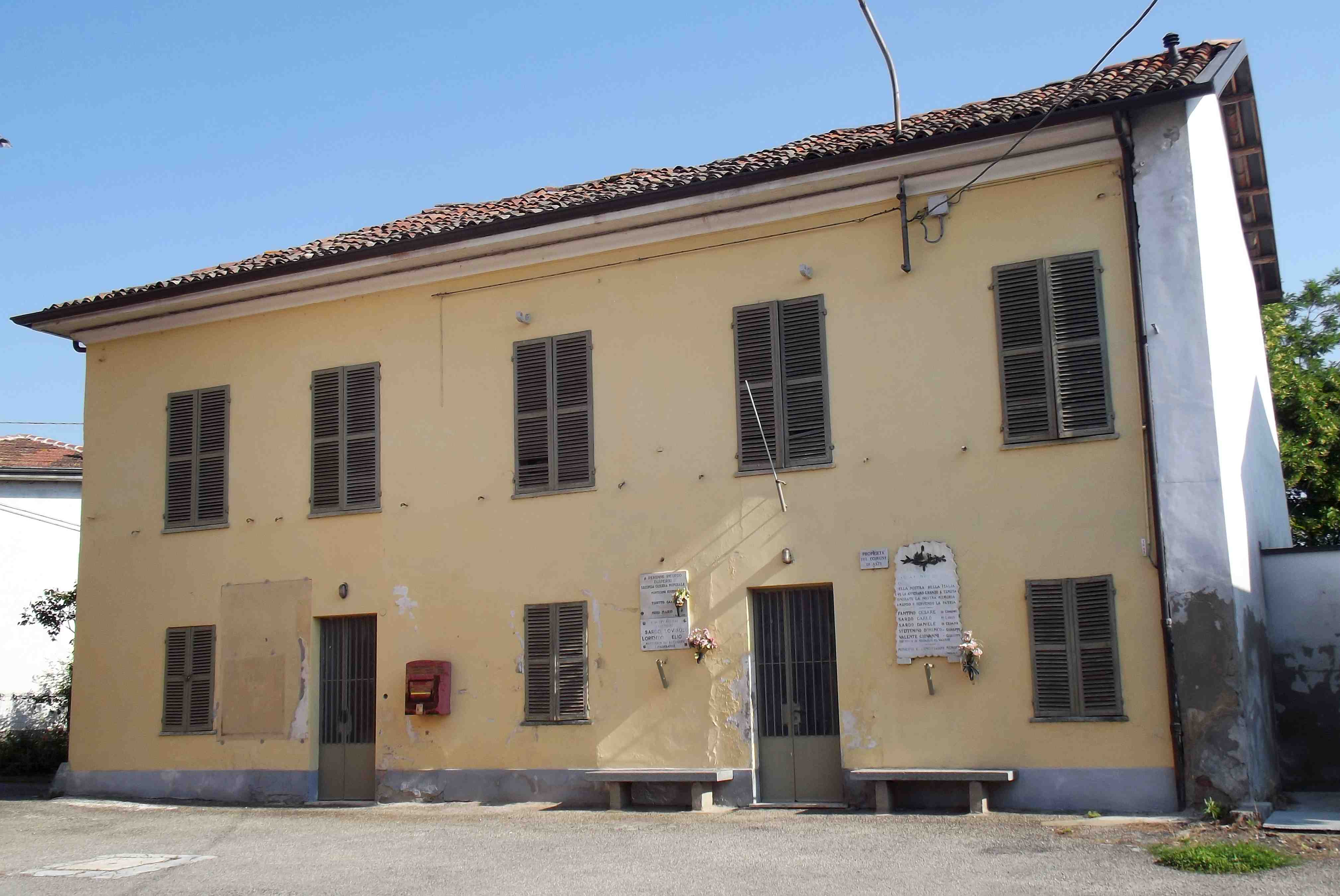 Vaglierano (Asti, Italy): former town hall